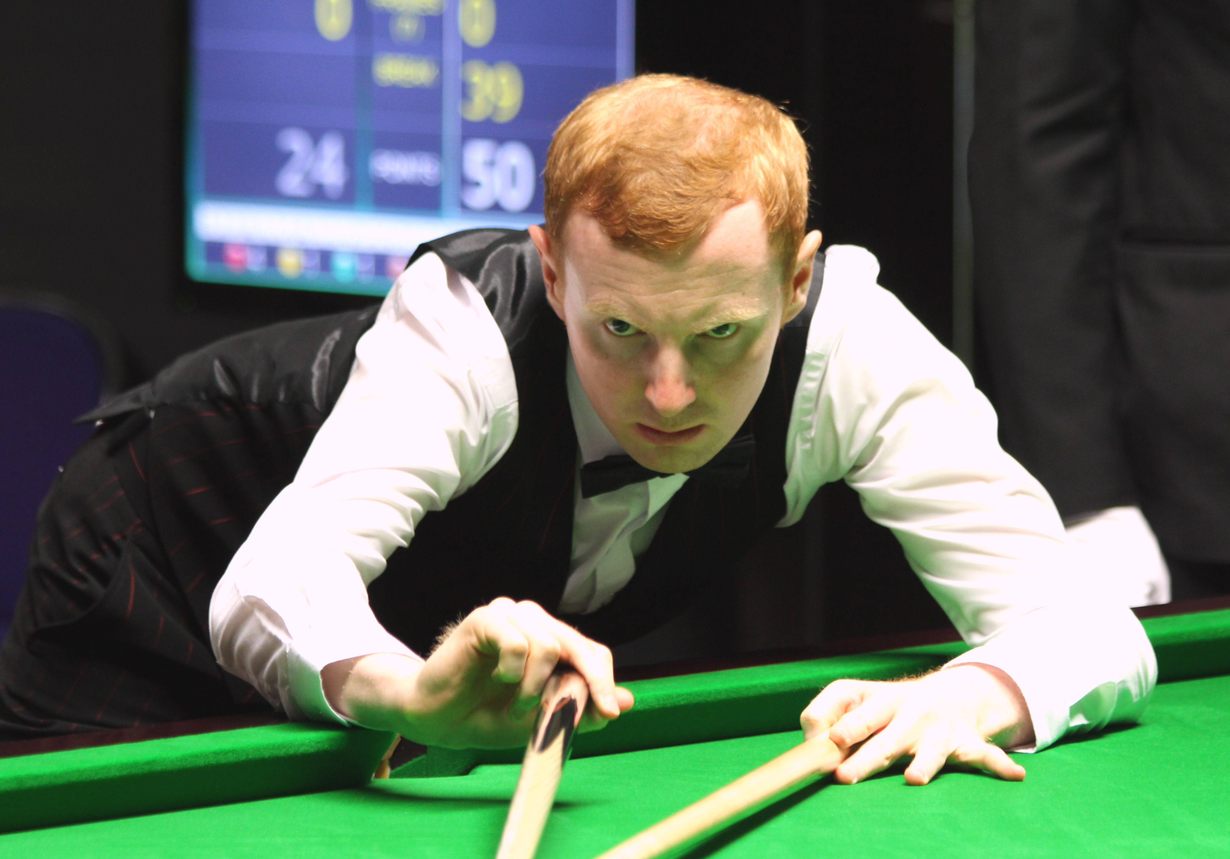 Anthony McGill beim Paul Hunter Classic 2016